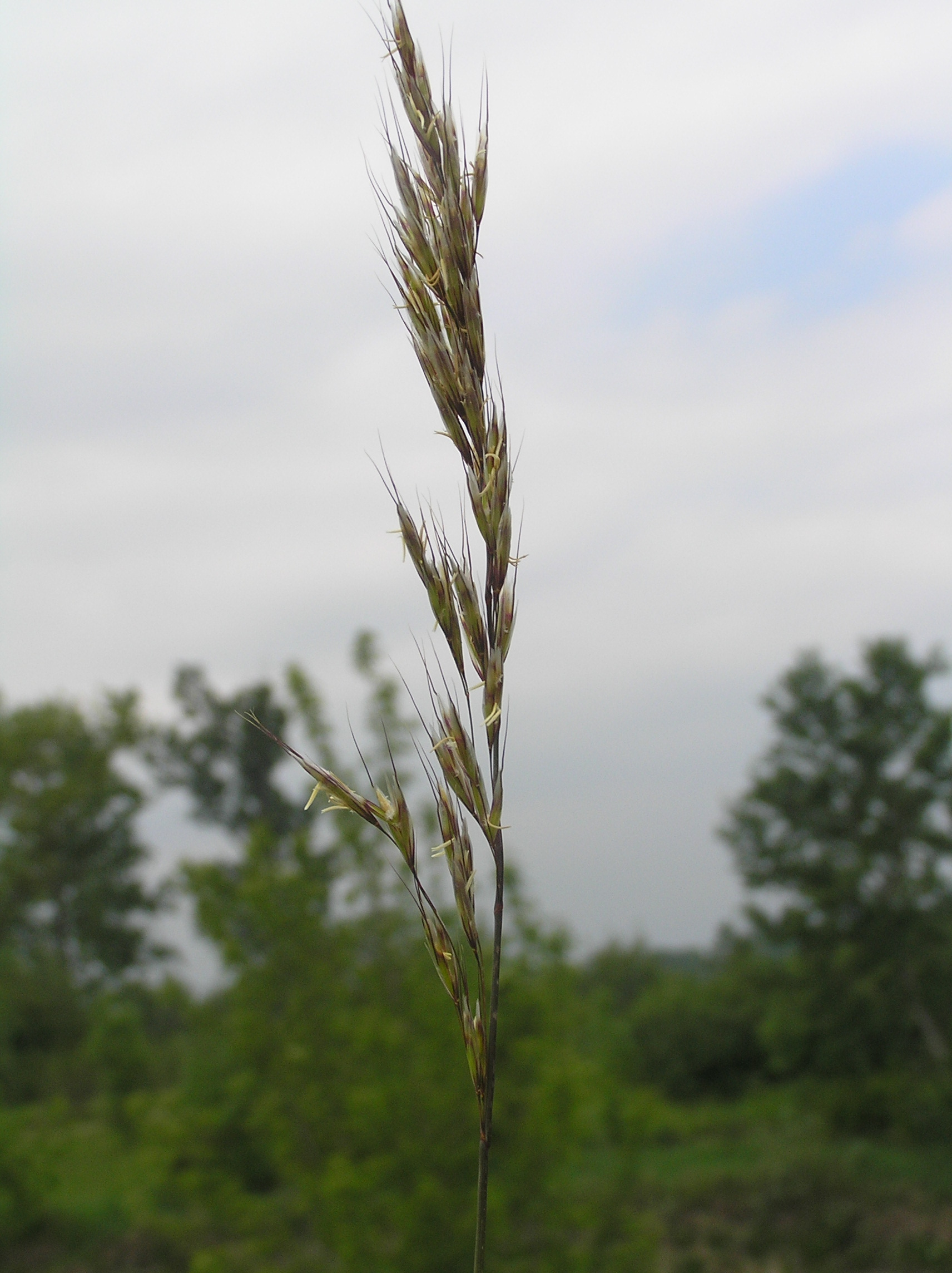 Avenula pubescens, Dub nad Moravou, Moravia, Czech Republic